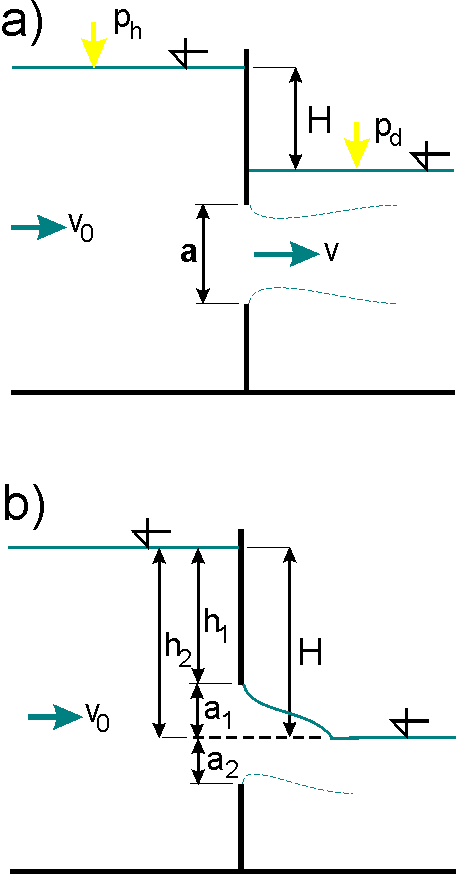 outflow from an orifice - drowned and partially drowned orifice